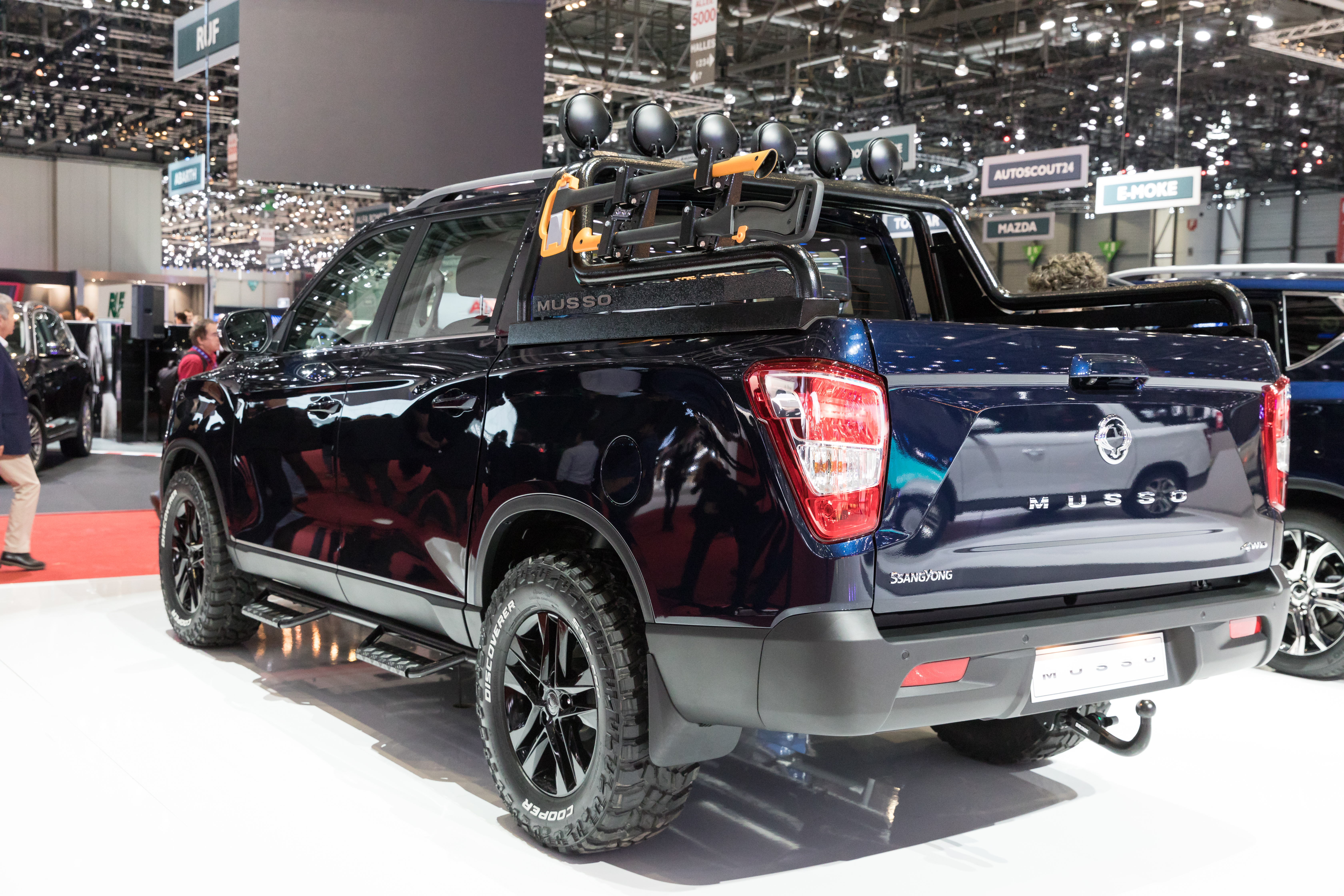 Geneva International Motor Show 2018